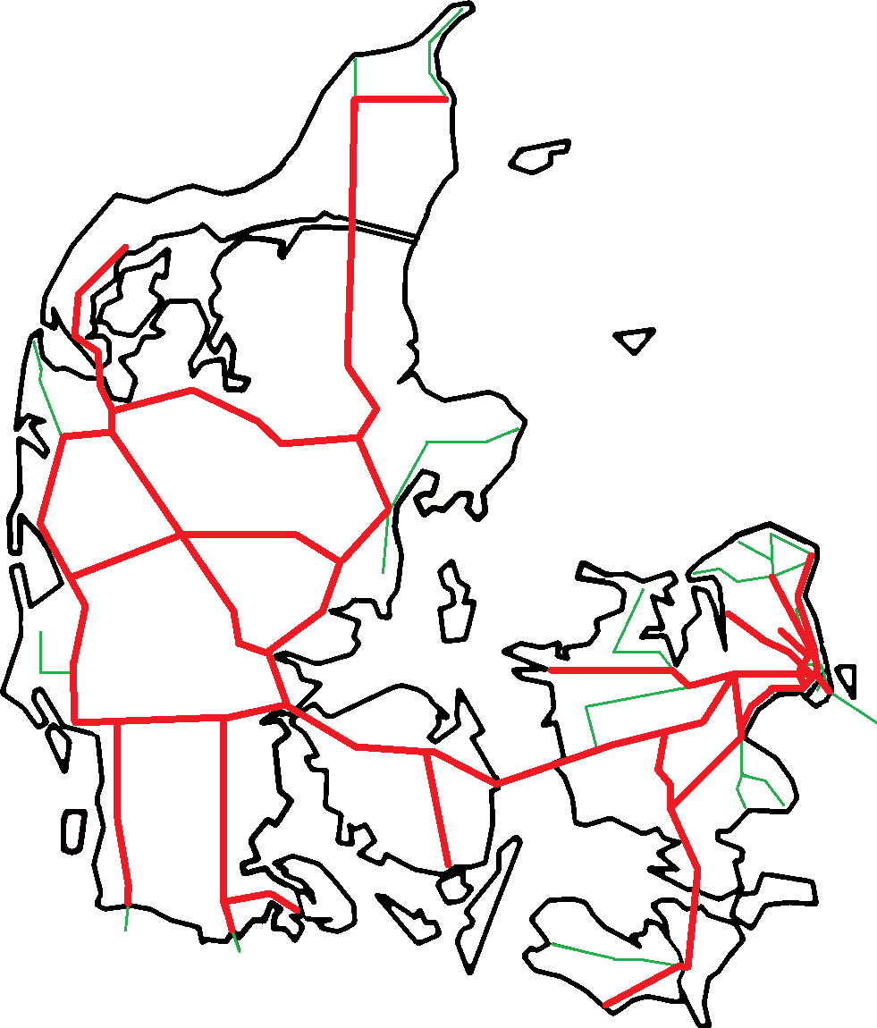 Map of railways in Denmark with lines owned by Banedanmark in red.